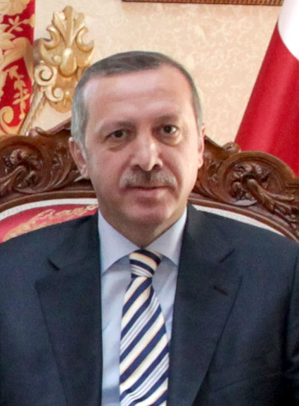 Turkish Prime Minister Recep Tayyip Erdoğan